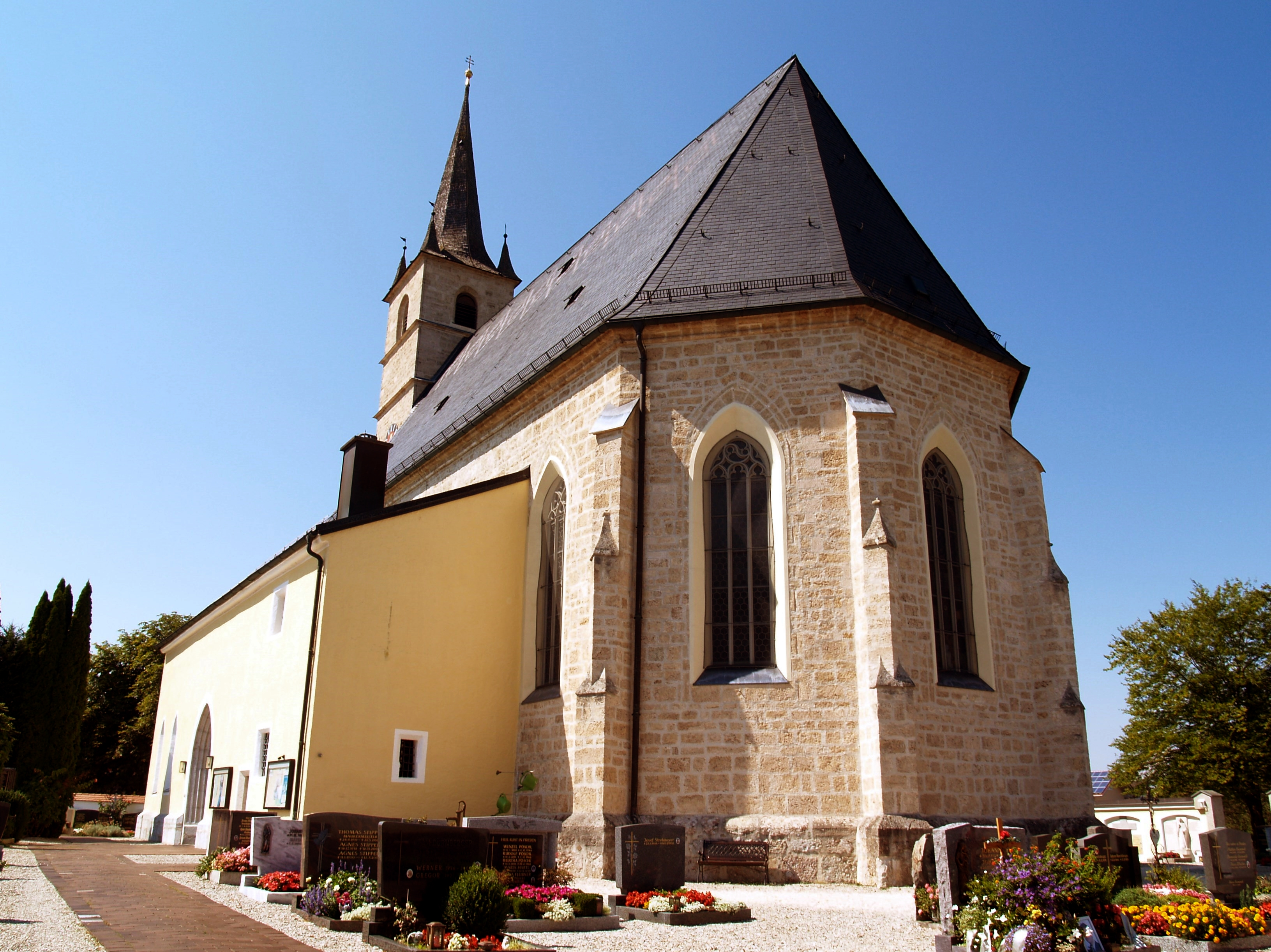 This is a photograph of an architectural monument.